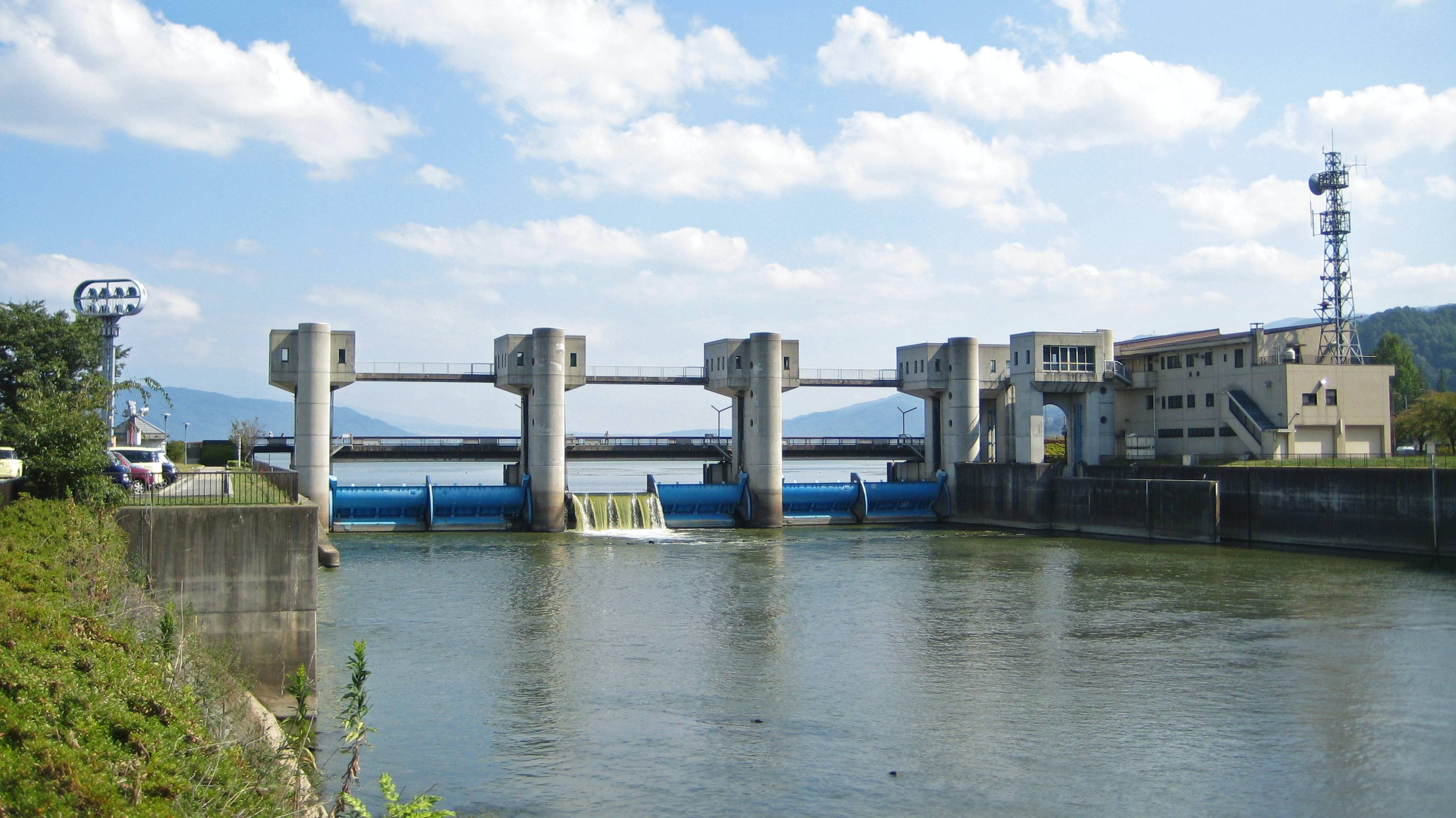 Kamaguchi Floodgate.